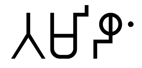 The word "Tamil" written in Tamil-Brahmi